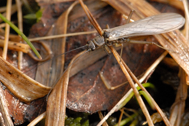 Amphinemura sulcicollis from Commanster, Belgian High Ardennes .